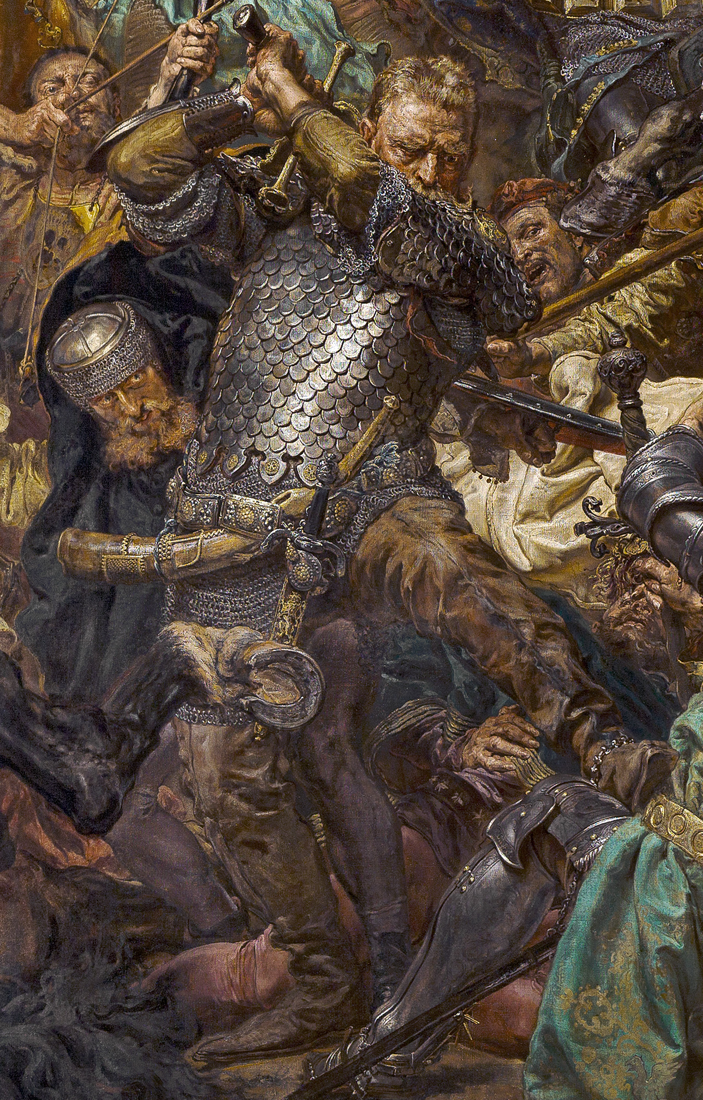 Jan Zizka - Battle of Grunwald by Jan Matejko